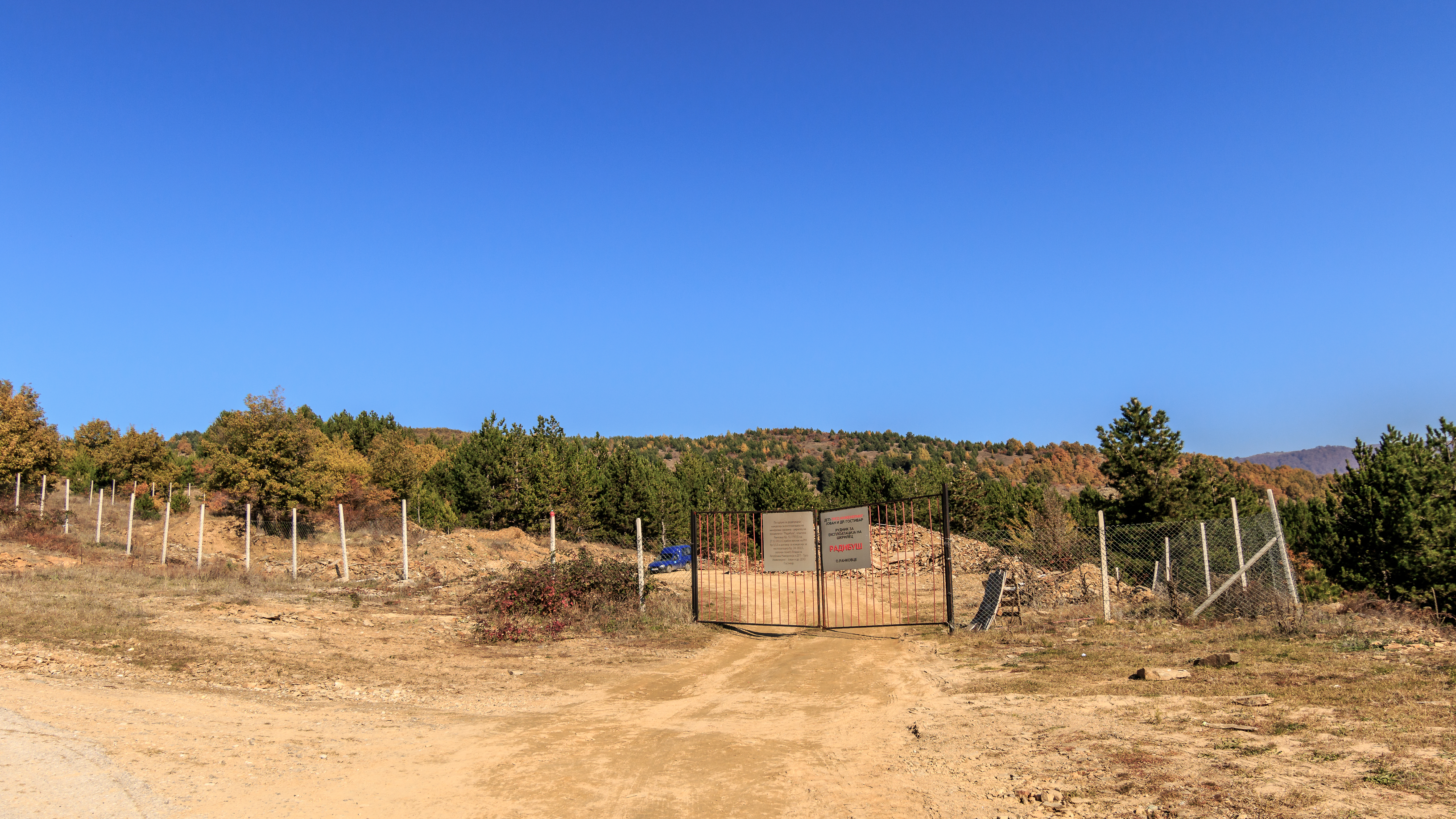 Slate mine near the village Radibuš